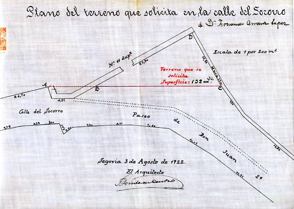 The ground plane of the reconstruction of the House No. 11 duplicate of the street of the relief (Segovia, Spain), in the remains of the chapel of San Gudumián (1290) and then San Gregorio.